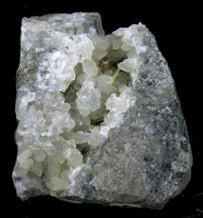 Krennerite Locality: Cresson Mine, Eclipse Gulch, Cripple Creek District, Teller County, Colorado, USA (Locality at ) Size: 3.0 x 2.7 x 2.5 cm. This rare gold silver telluride forms in some of the finest crystals in the world in the Cripple Creek Mining District. Fine crystals of Krennerite on matrix are virtually impossible to obtain anymore as the mines around Cripple Creek have long been defunct. This specimen features a few sharp, lustrous, platy, silvery colored crystals of Krennerite on Quartz matrix. These specimens are virtually impossible to obtain on the market these days.